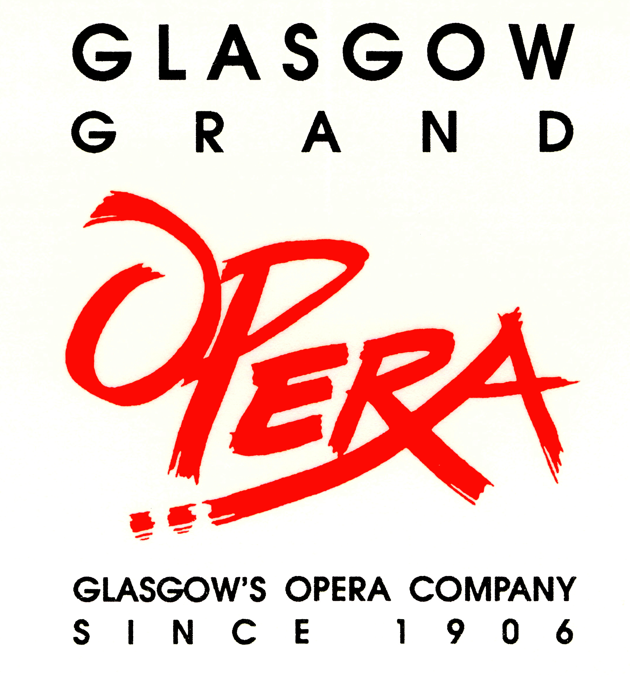 Glasgow Grand Opera Society logo from 1993 until its demise in 2000. This logo, designed by Publicity Manager Douglas Taylor, dropped 'Society' for the first time from publicity materials